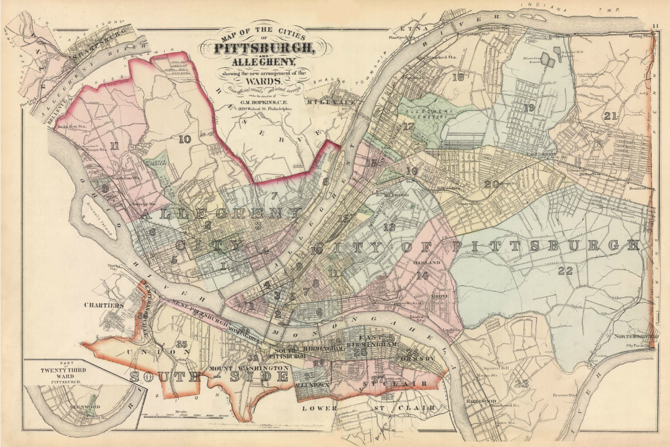 Map of the Cities of Pittsburgh and Allegheny showing the New Arrangement of Wards, 1876